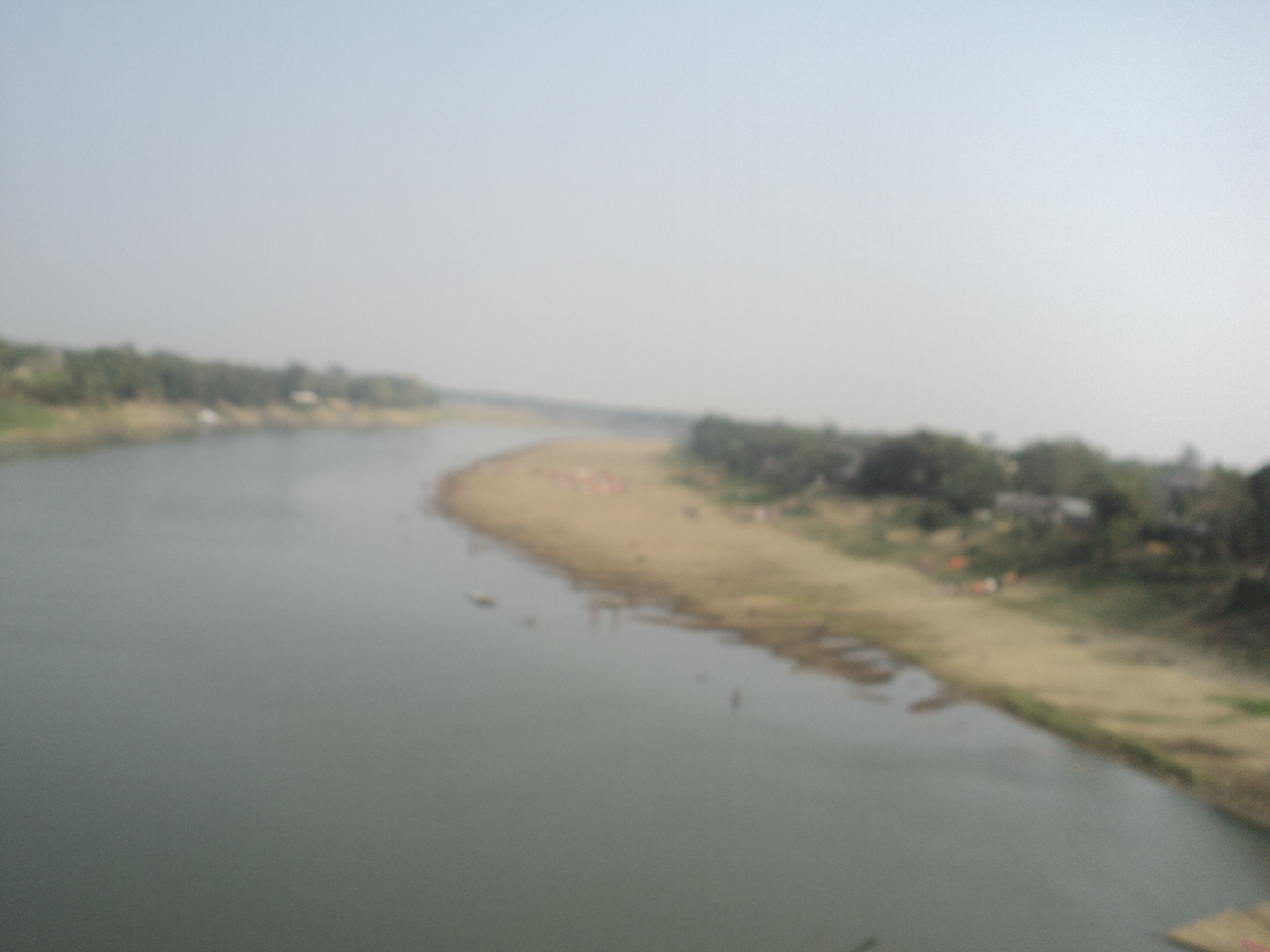 The Barak River, Silchar Town, India.